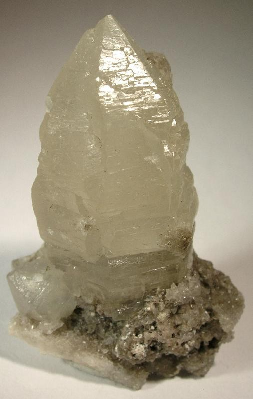 Witherite Locality: Alston Moor District, North Pennines, North and Western Region (Cumberland), Cumbria, England, UK (Locality at ) For the species, you will be hard-pressed to find Witherite with such fine form and luster in any size. As a thumbnail specimen in particular its amazing for hte large crystal on balanced matrix, that still (barely) fits in teh TN box. The matrix on the back actually adds strength and protection to the crystal, and there is only the most minor bruising. A terrific specimen. Barely squeezes into TN box diagonal... 3.8 x 2.5 x 1.2 cm